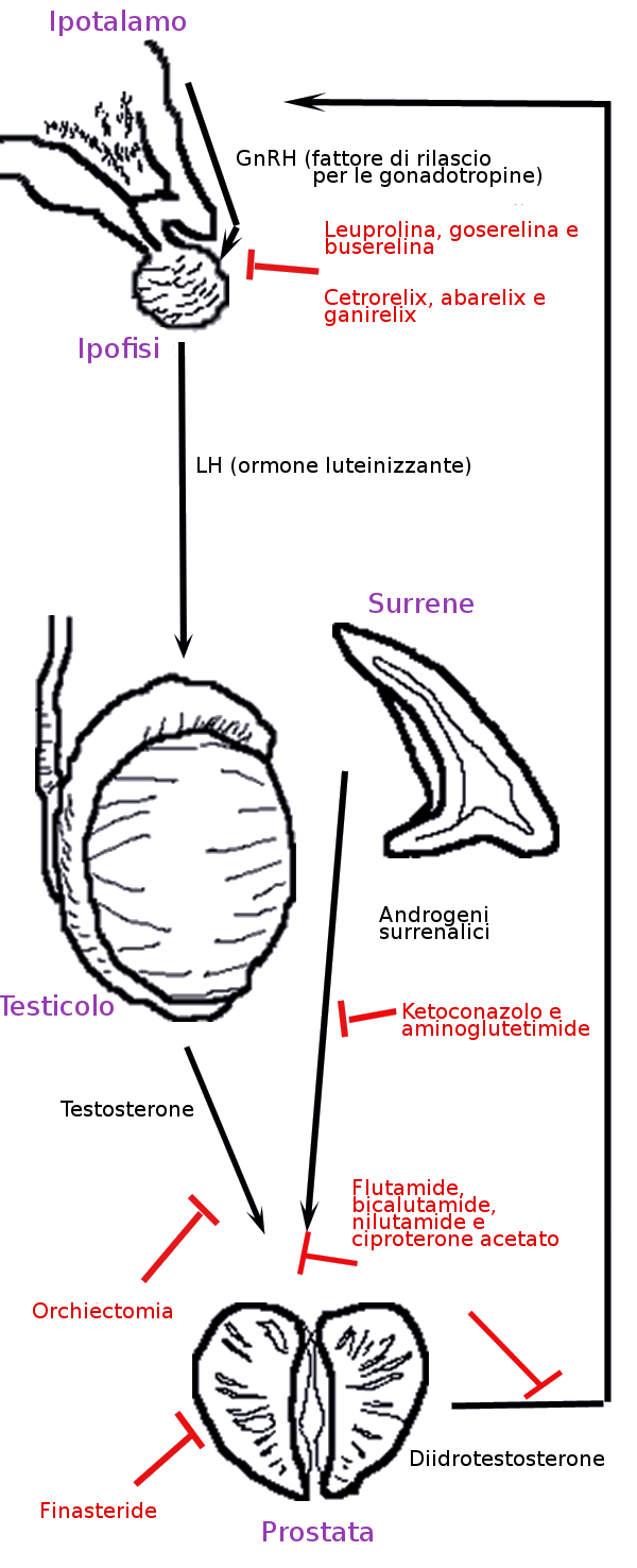 Created by me, all rights released